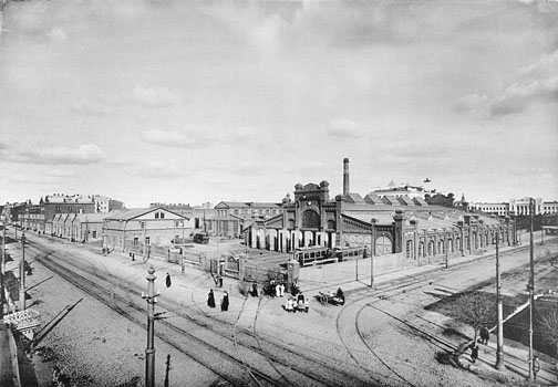 Tram depot on Lesnaya street.